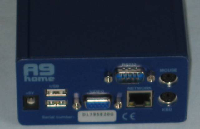 Advantage Six A9home (back).This picture shows the back of the A9Home with serial port and mouse socket on the top row and the power in, 2 more USB connectors, monitor, network and keyboard connectors on the bottom. SpecificationSerial No.D1795820GUnique Identity0000008E0600Motherboard part no.note 1Motherboard serial no.note 1CPU TypeARM9CPU ModelSamsungCPU Clock400 MHzMemory Controllernote 1Memory128MB SDRAM8MB VRAMMemory clocknote 1Graphics processorSM501Floppy Disc DrivenonePodulesnoneNetwork10/100 BaseTother upgradesnoneOSRISC OS Adjust324.42 pre8OS Date16 Mar 2006Benchmarksnote 2